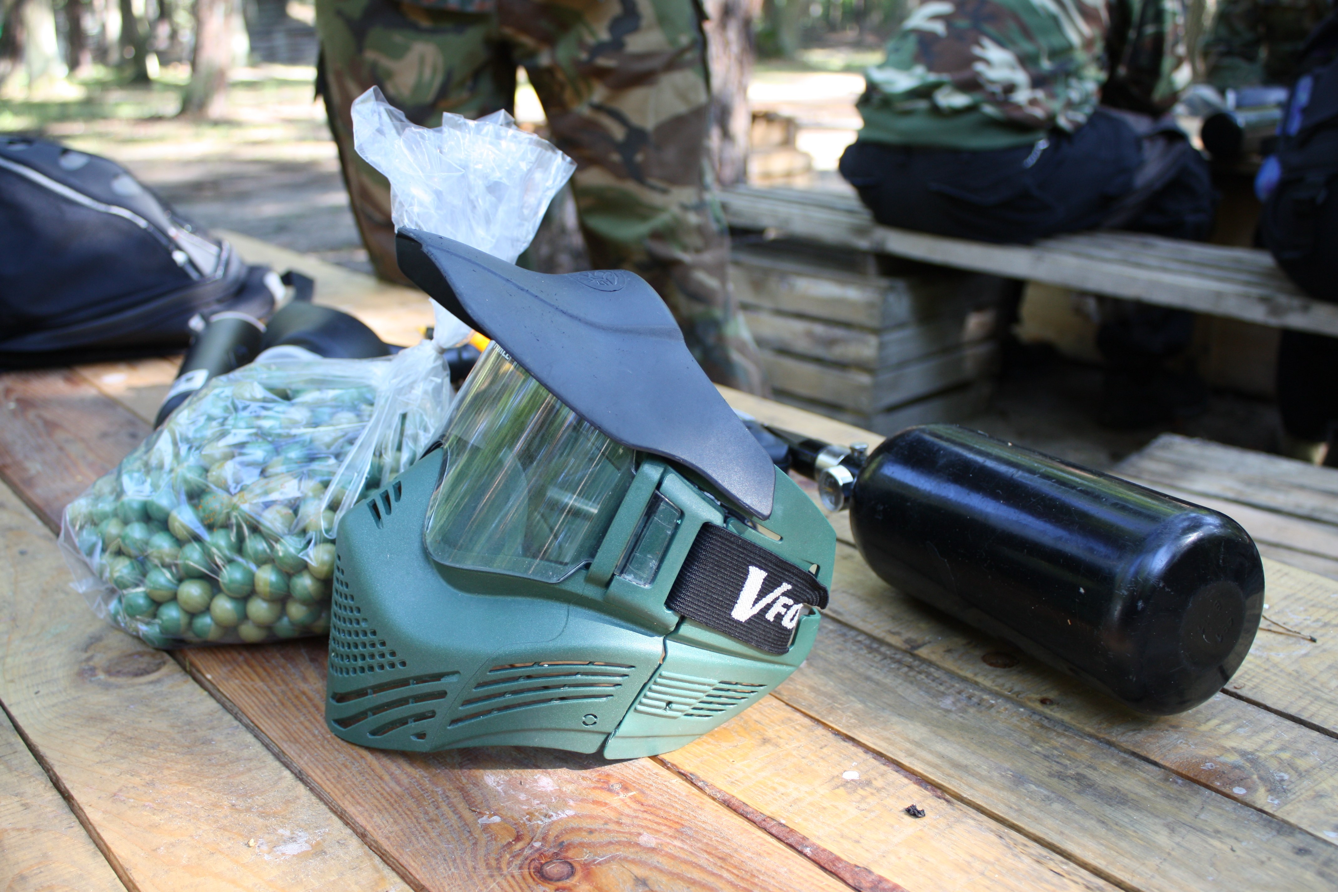 Paintball games in Zalesie Górne near Piaseczno, Poland